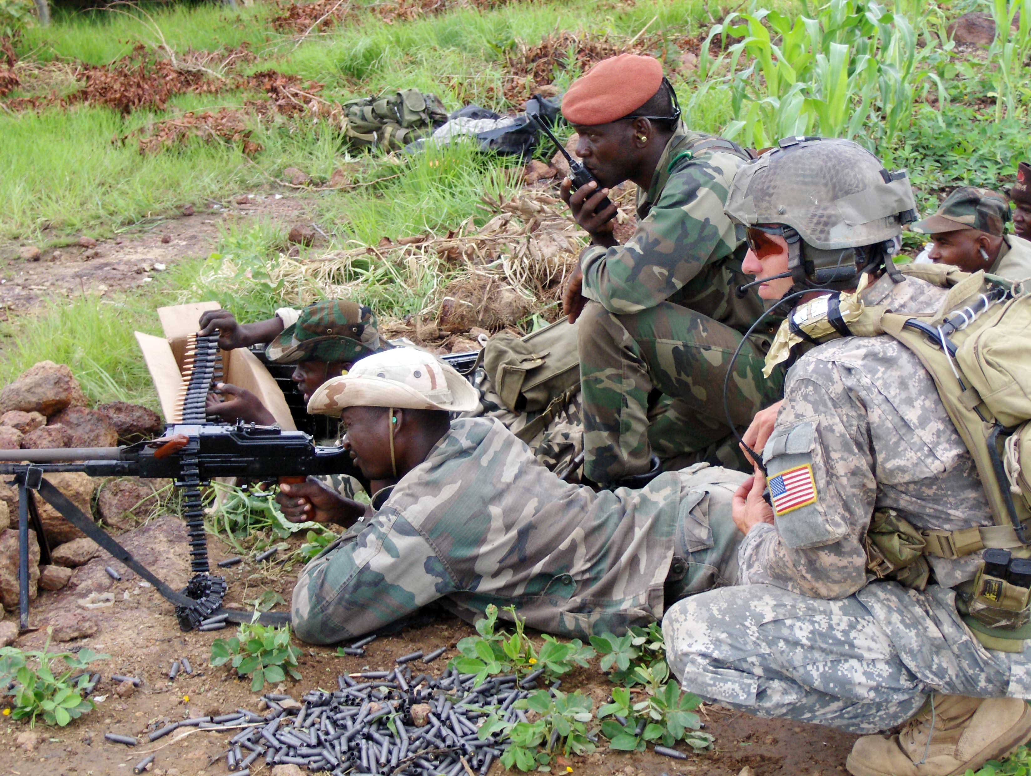 A French-speaking Special Forces NCO watches weapons marksmanship training for a member of a Malian counter-terrorism unit during one of over 30 pre-scheduled military training engagements planned, coordinated and managed by SOCAFRICA’s JSOTF-TS.